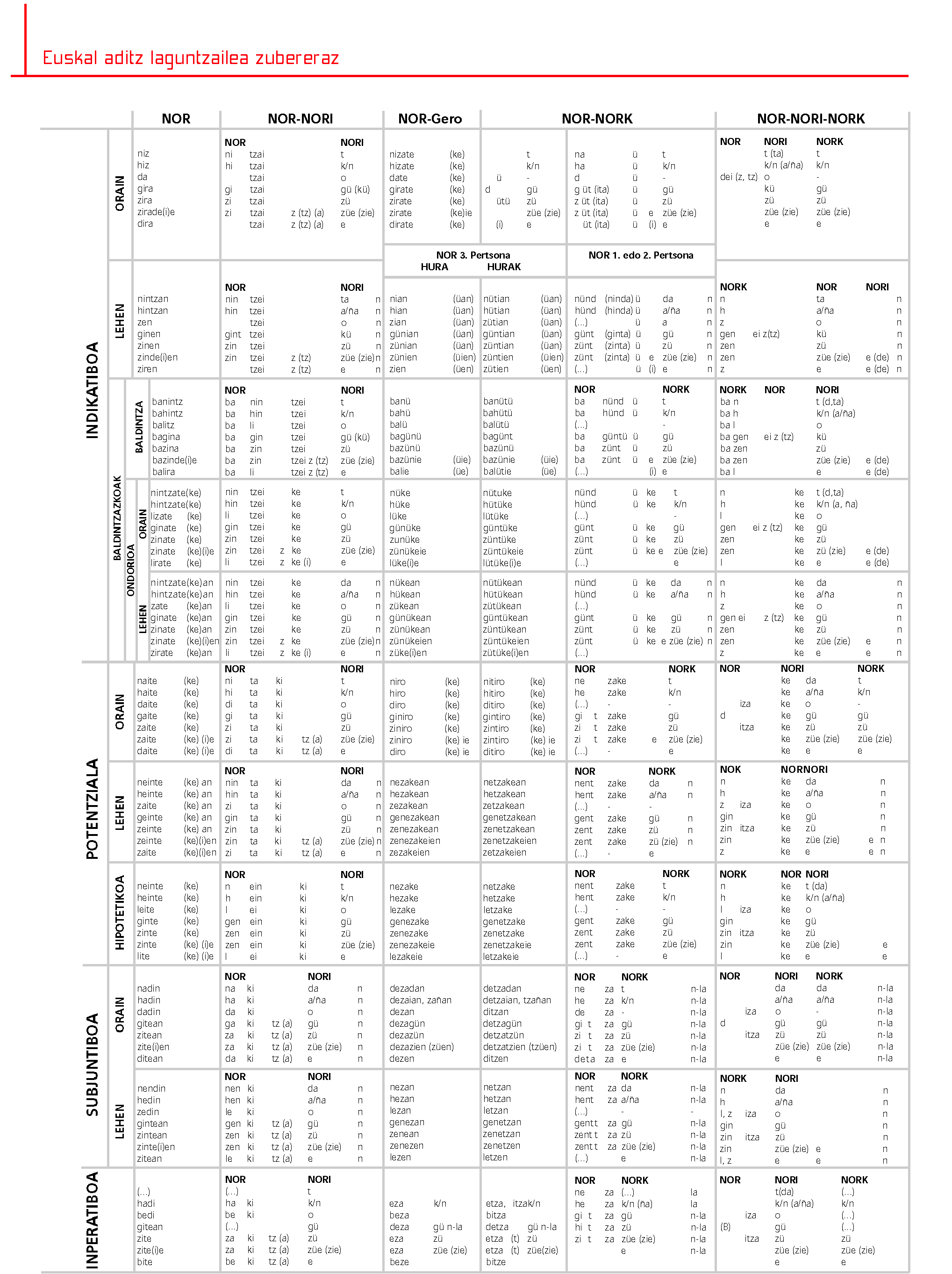 Nor Nori Nork verb table of the basque dialect Souletin